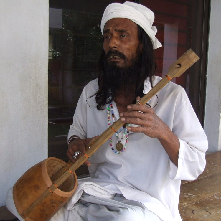 Lalon Shah's tomb and mazar in Kushtia, Bangladesh